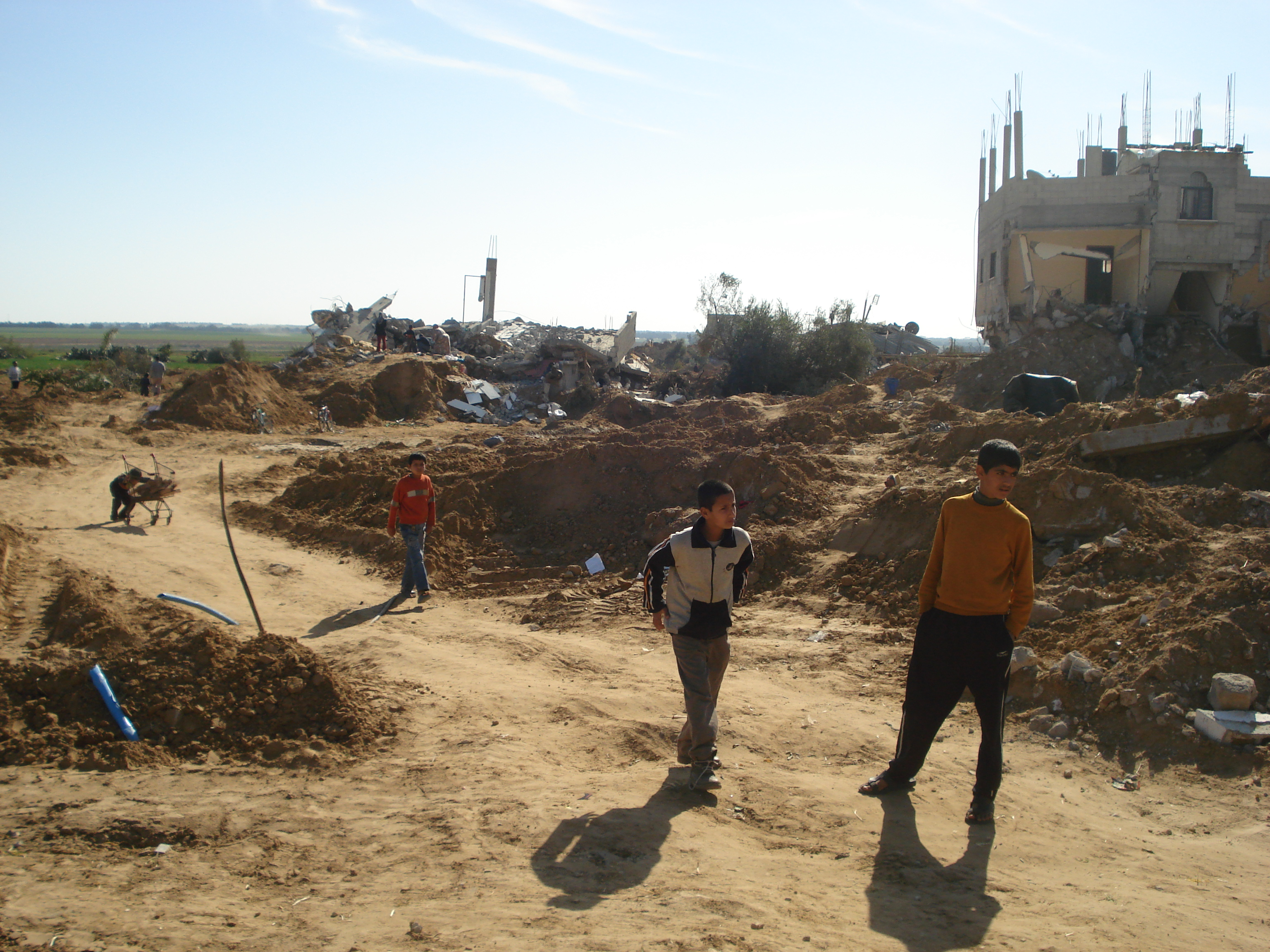 Boys are playing in between the ruins of Gaza City